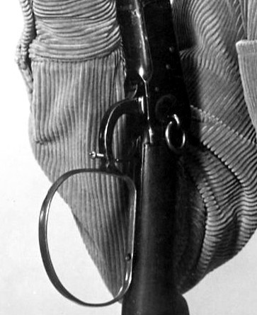 Rifleman's extra large lever action detail